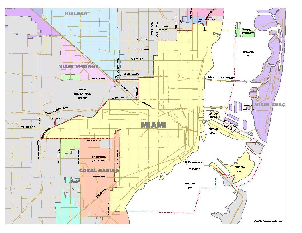 City of Miami General Boundary Map